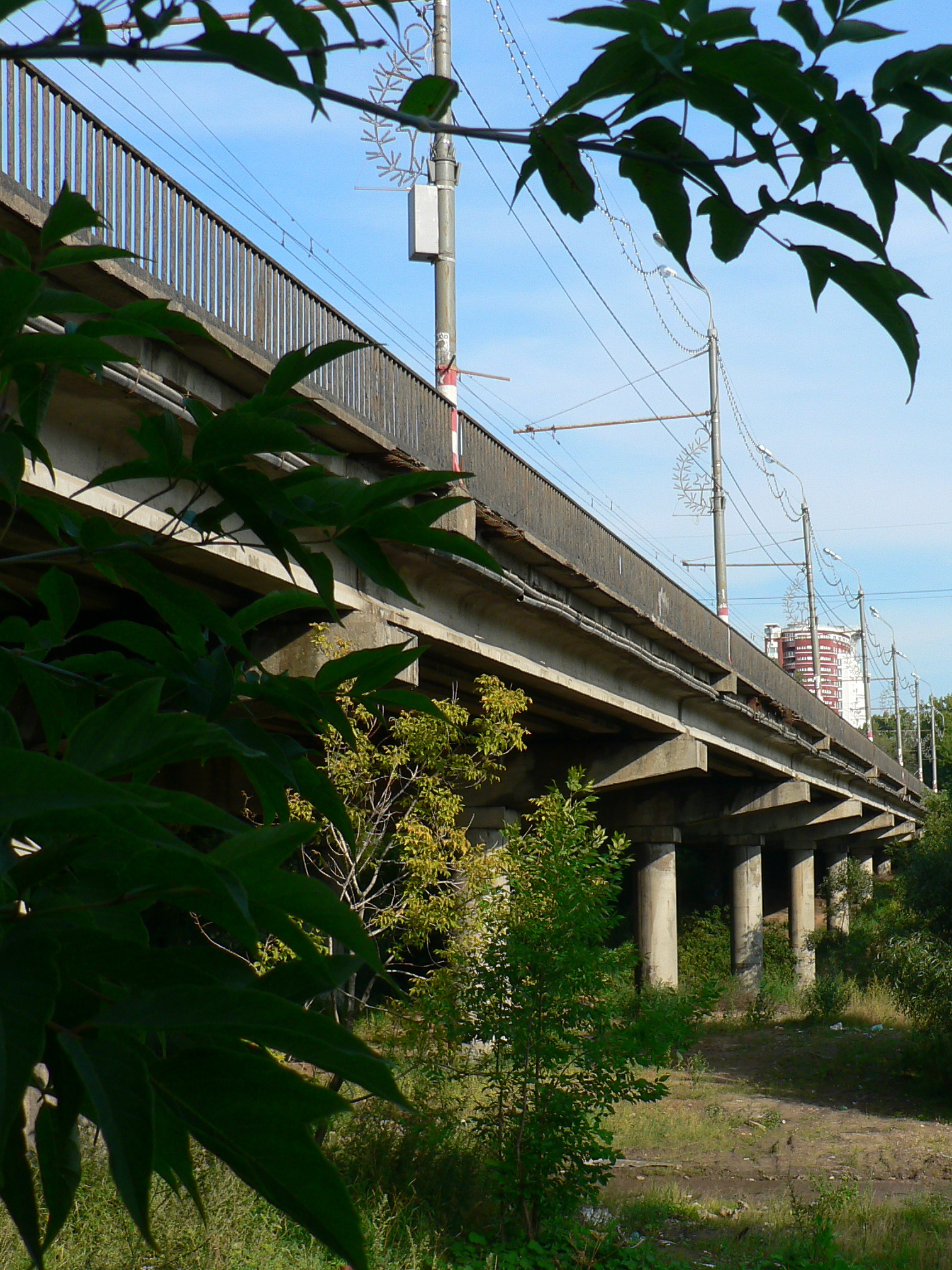 The Bridge over Kova river